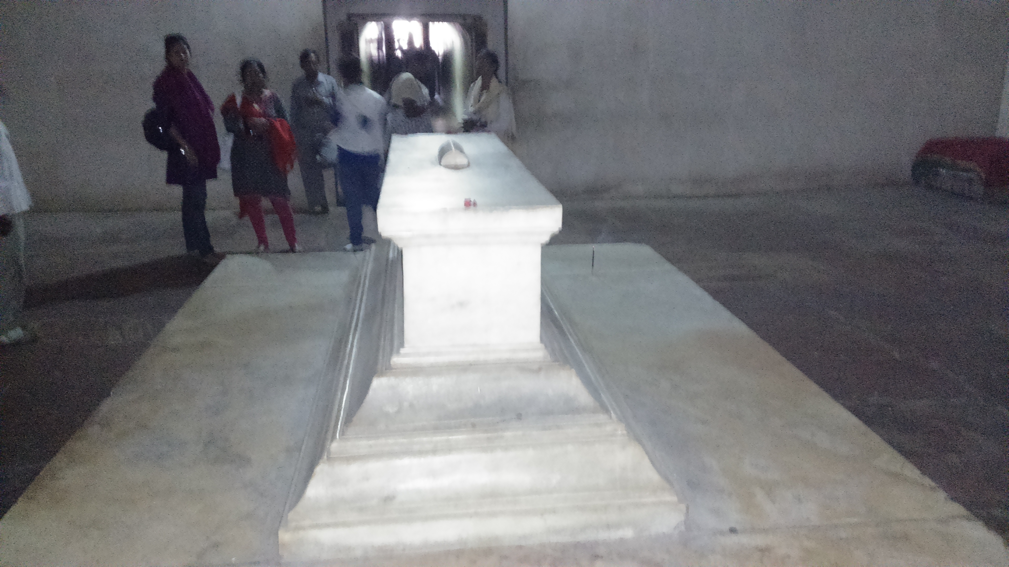 Tomb of Akbar